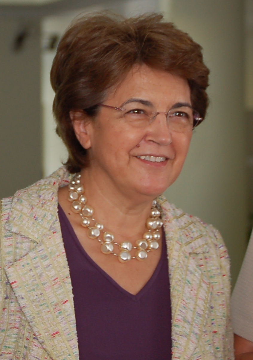 Portuguese Minister for Health, Ana Jorge at a reception given at the EMCDDA in its premises in Lisbon, Portugal, for the International day against drug abuse and illicit trafficking (26 June 2010).